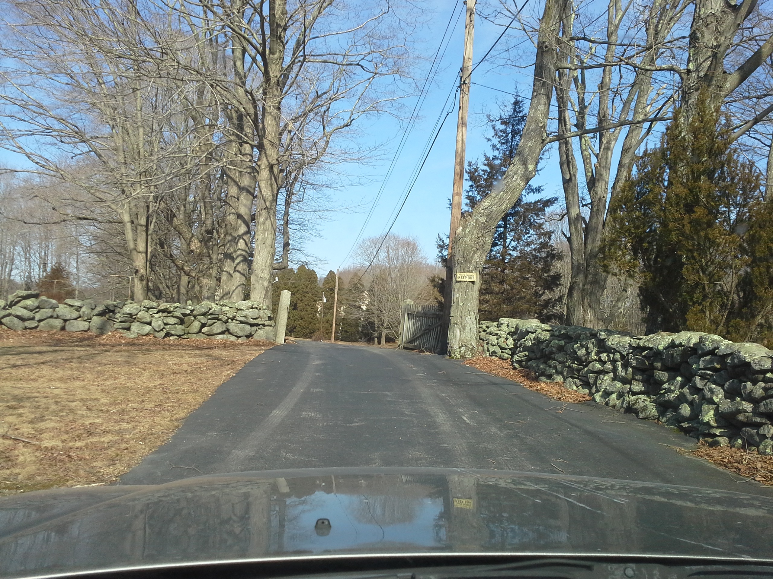 Stephen Winsor House driveway entrance off Austin Avenue in Greenville RI in Smithfield Rhode Island USA